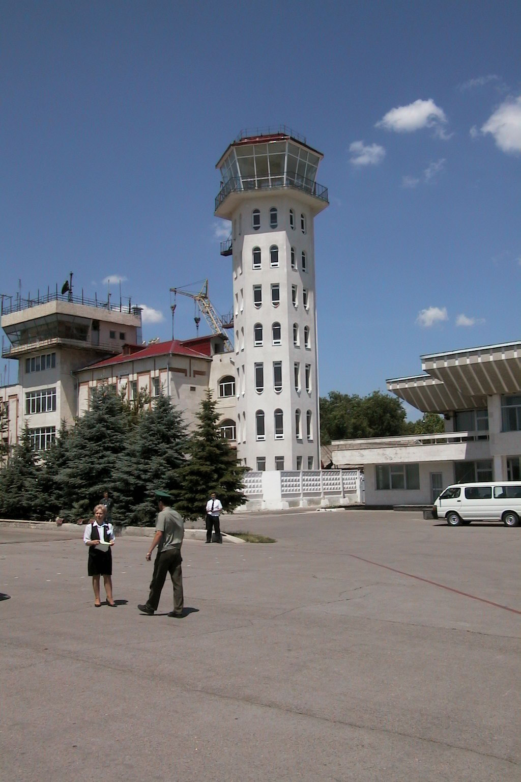 Tower of Chisinau-Airport, Republic of Moldova